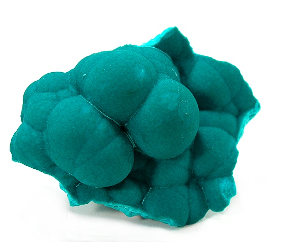 Aurichalcite Locality: Kelly Mine, Magdalena District, Socorro County, New Mexico, USA (Locality at ) A rich rolling carpet of botryoidal Aurichalcite, from a locality better known for blue smithsonite in such richness. This is, indeed, a rare and rich example for the mine. 5.3 x 3.8 x 1.4 cm